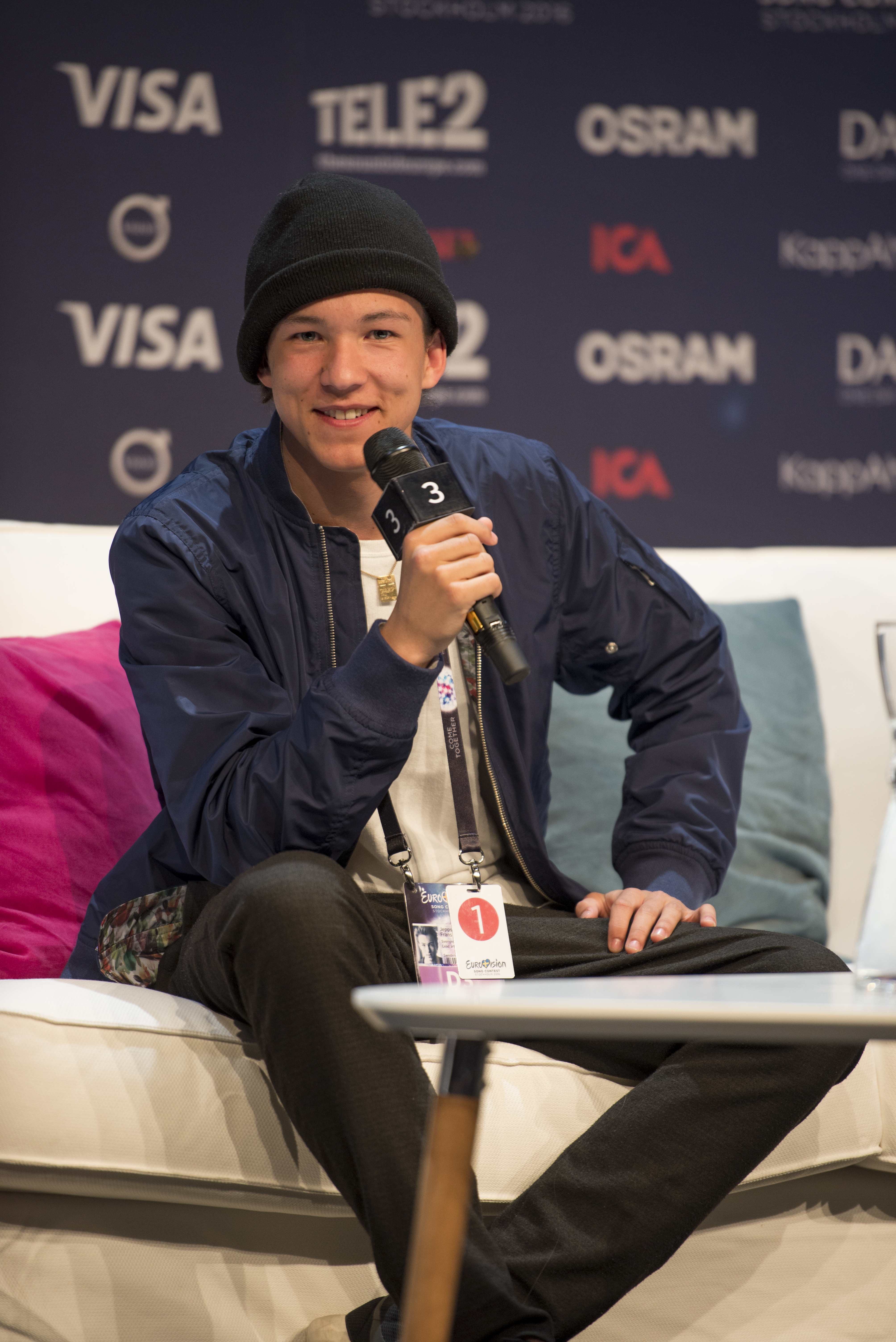 Frans at a Meet & Greet during the Eurovision Song Contest 2016 in Stockholm. (Help translate this text)